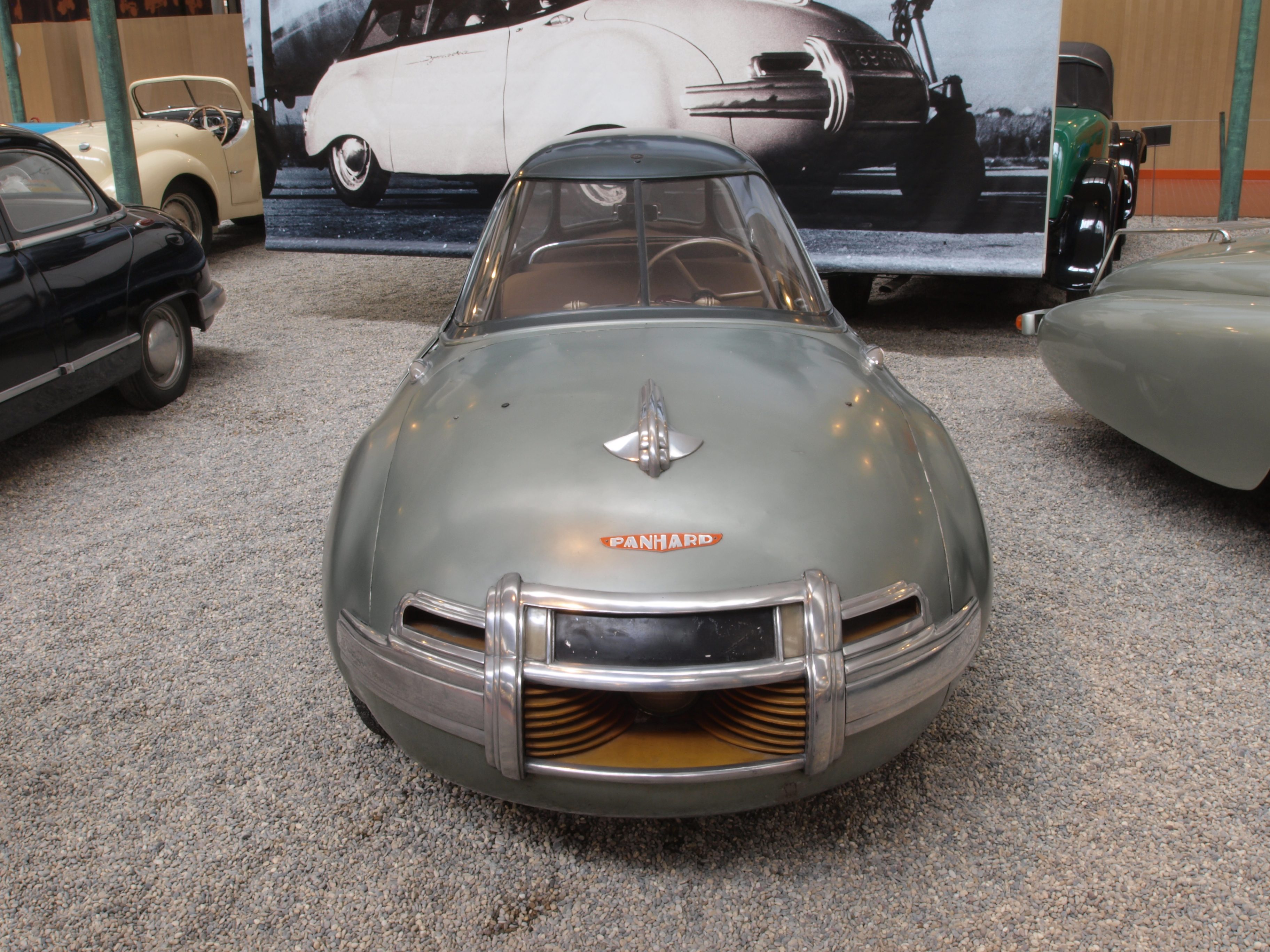 Photographed at the Cité de l’Automobile, France. OLYMPUS DIGITAL CAMERA